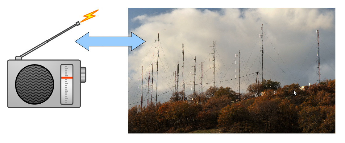 Example of radio transmission - demonstrating frequency domain multiplexing. Each radio station has it own frequency channel. Radio demultiplex the radio frequency of the desired radio station.